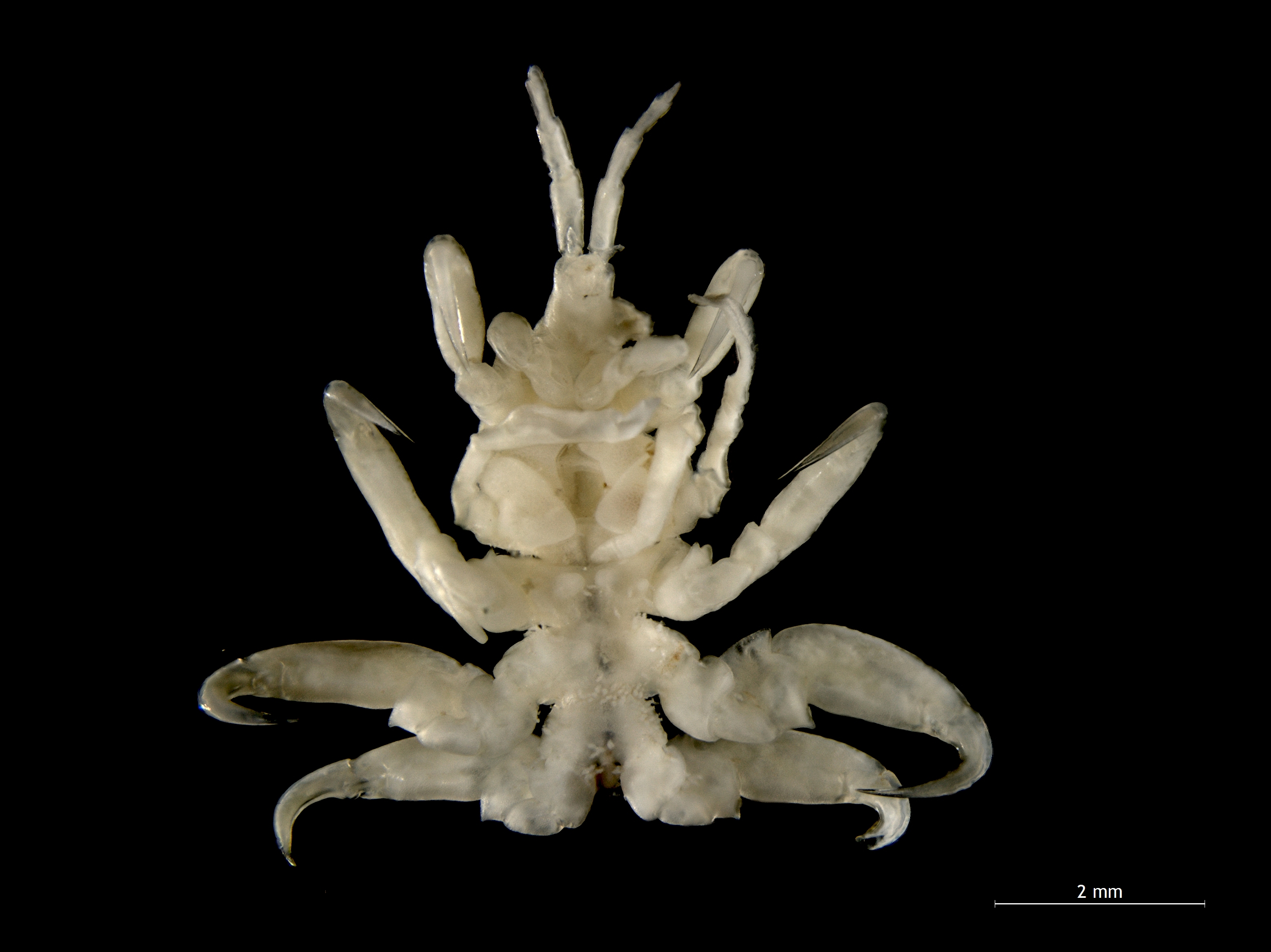 Ventral view of a female Humpback louse, taken with a Leica DFC 490 camera mounted on a Leica M205C binocular microscope. Collected from a stranded Megaptera novaeangliae (Humpback whale) at the Belgian coast (Lombardsijde) in 2006. Picture was taken in the lab. Length = ~10 mm Focus stacking of 36 pictures.